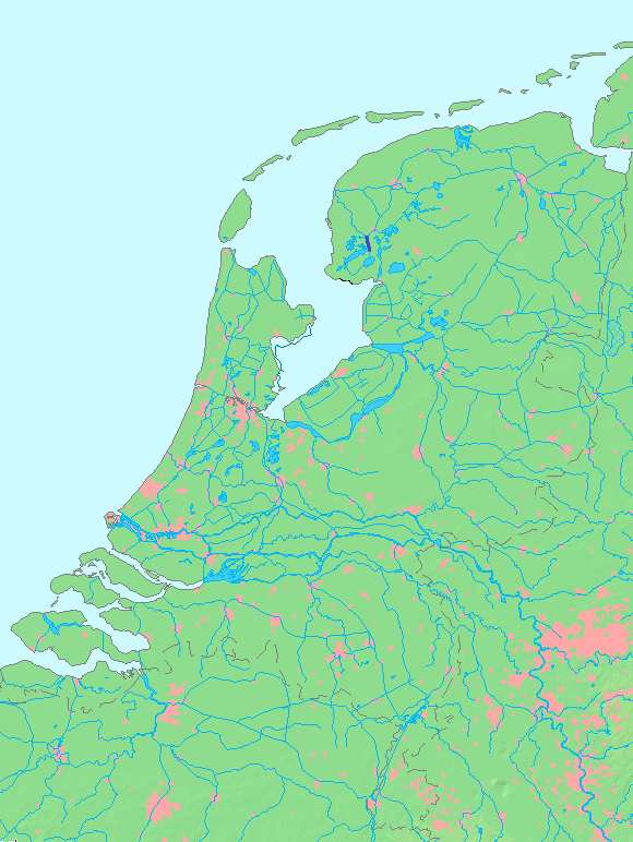 Location canal Wide Wimerts (Wijde Wijmerts) in Friesland, the Netherlands.